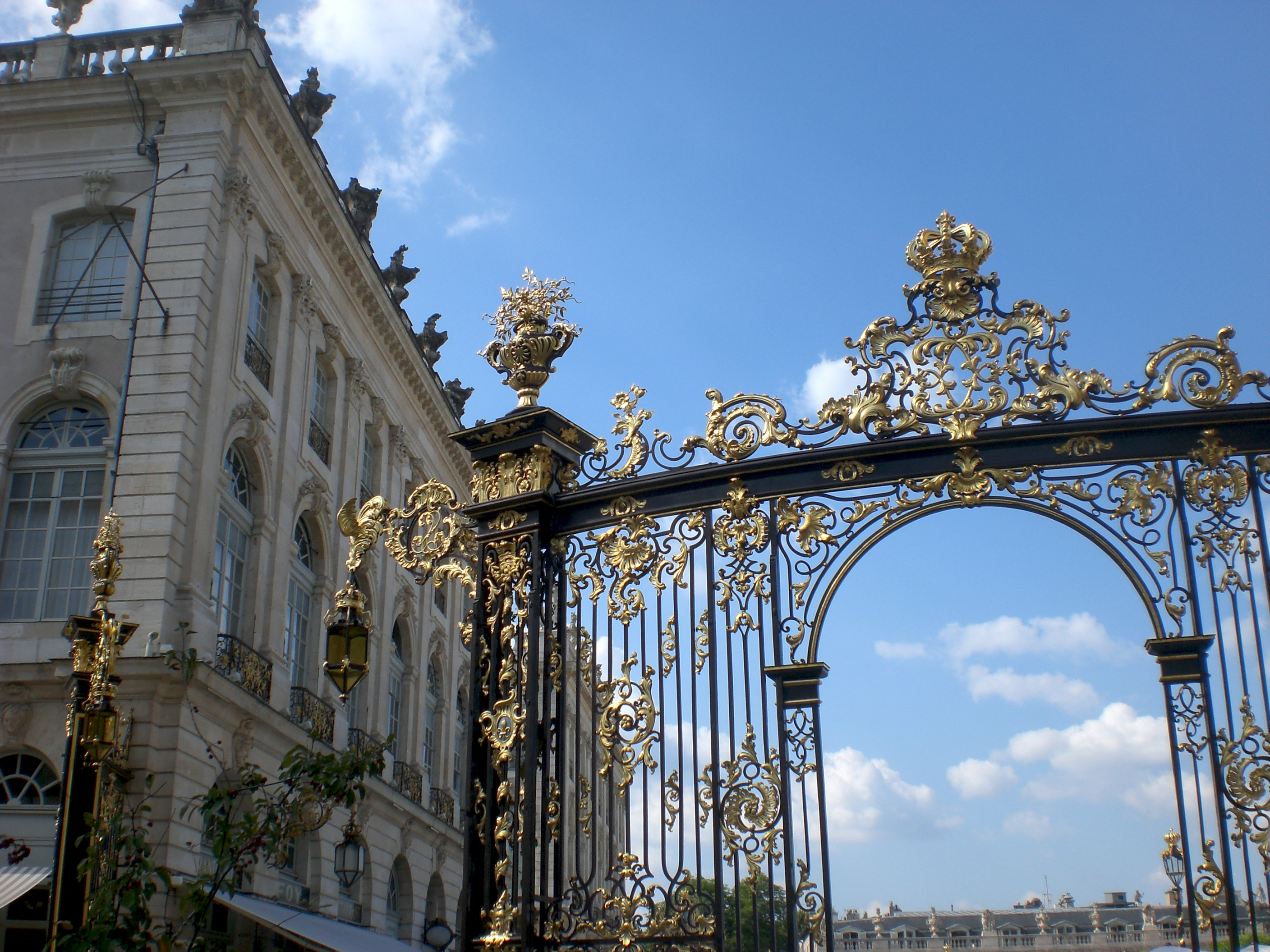 Nancy, Gates of Place Stanislas by Jean Lamour